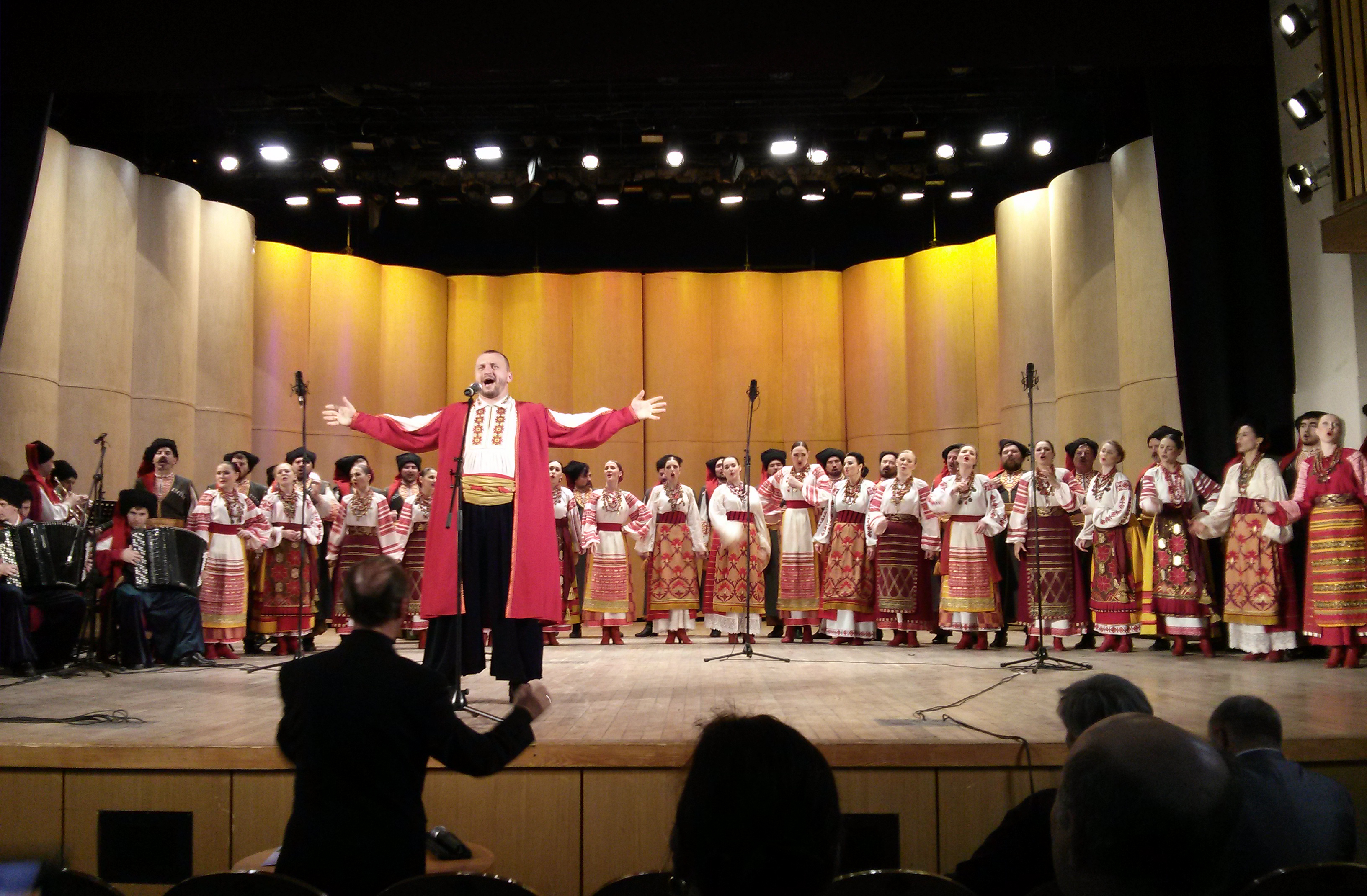 Kuban Cossack Choir at Gnessin Russian Academy of Music in Moscow, directed by Viktor Gavrilovich Zakharchenko.